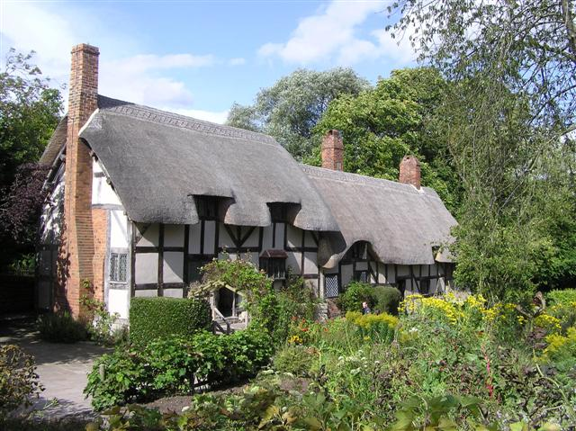 Anne Hathaway's Cottage Where the wife of William Shakespeare was born, but it actually belonged to her parents